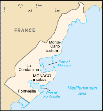 Map of Monaco showing points of interest.